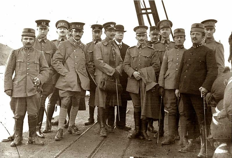 International Gendarmerie posing on February 24, 1914